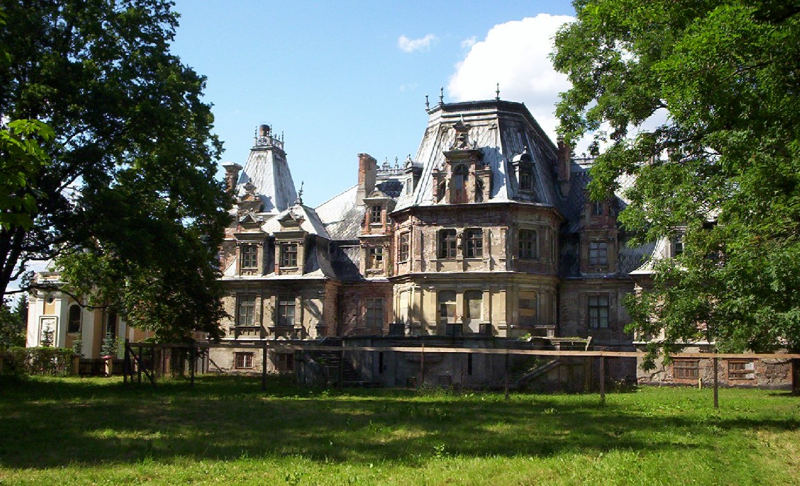 Ruined palace in Guzów (Masovia, Poland). South side, view from park. To the left - church.